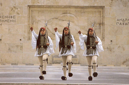 Changing of the Guard Evzones in front of the Tomb of the Unknown Soldier in Syntagma Square, Greece.